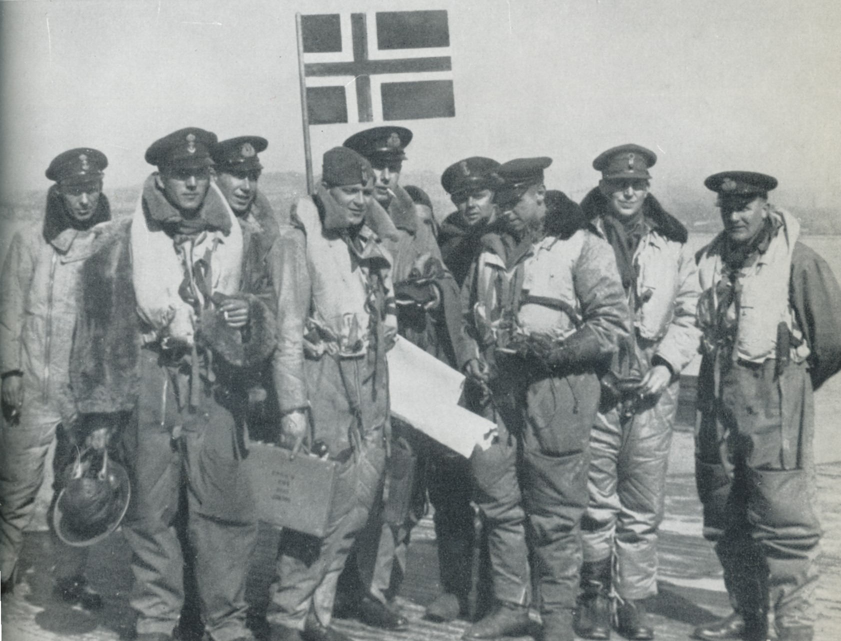 Crew of Vingtor 2. May 1942 after first Special Ops mission to Norway. Pilot Finn Lambrechts with cigarette under the flag, author Nordahl Grieg 2. from right. All, l-r: Agnar Næss, Constantin Christensen, Bjørn Tingulstad, Kåre Stenwig, Lambrechts, (Finn Christiansen partially covered behind Lambrechts), Jon Olavson Roe, Håkon Offerdal, Grieg, Hans Rønningen